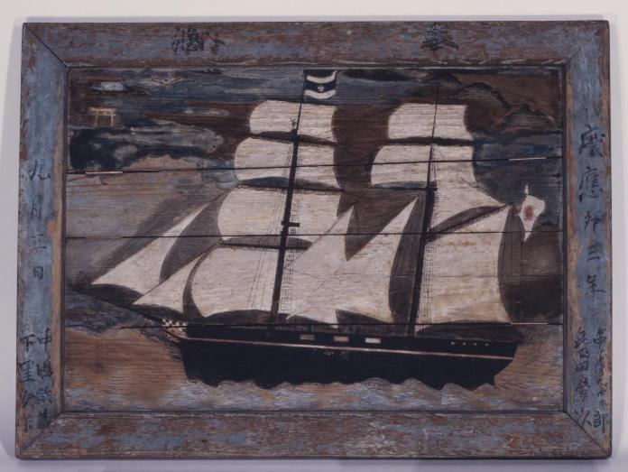 "Jingo Maru zuema" (Ema of picture of Jingo Maru). Jingo Maru was a sailing ship built by Himeji Domain in 1863.